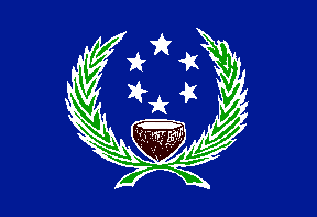 Flag of Pohnpei, 1977-1992